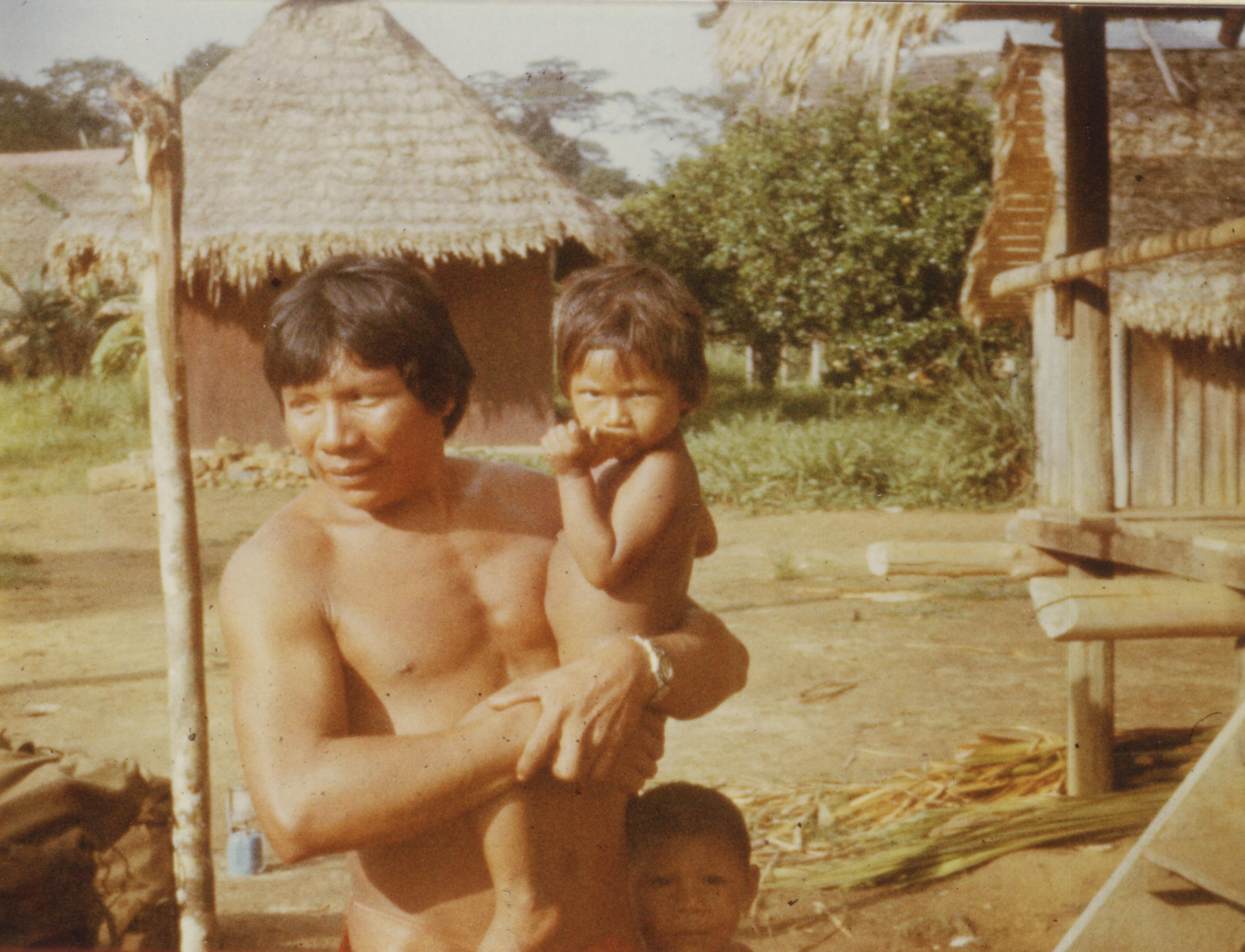 Photo taken in 1979. Daily life in the Wayana village of Antecume Pata in French Guiana. A father and his sons.